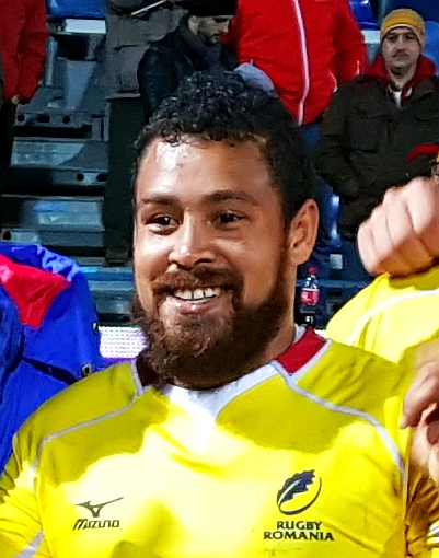 Jody Rose of Romania National Rugby Team after a test match against United States National Rugby Team in November 2016